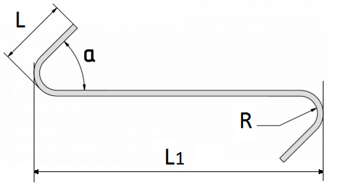 Чертеж Sобразн